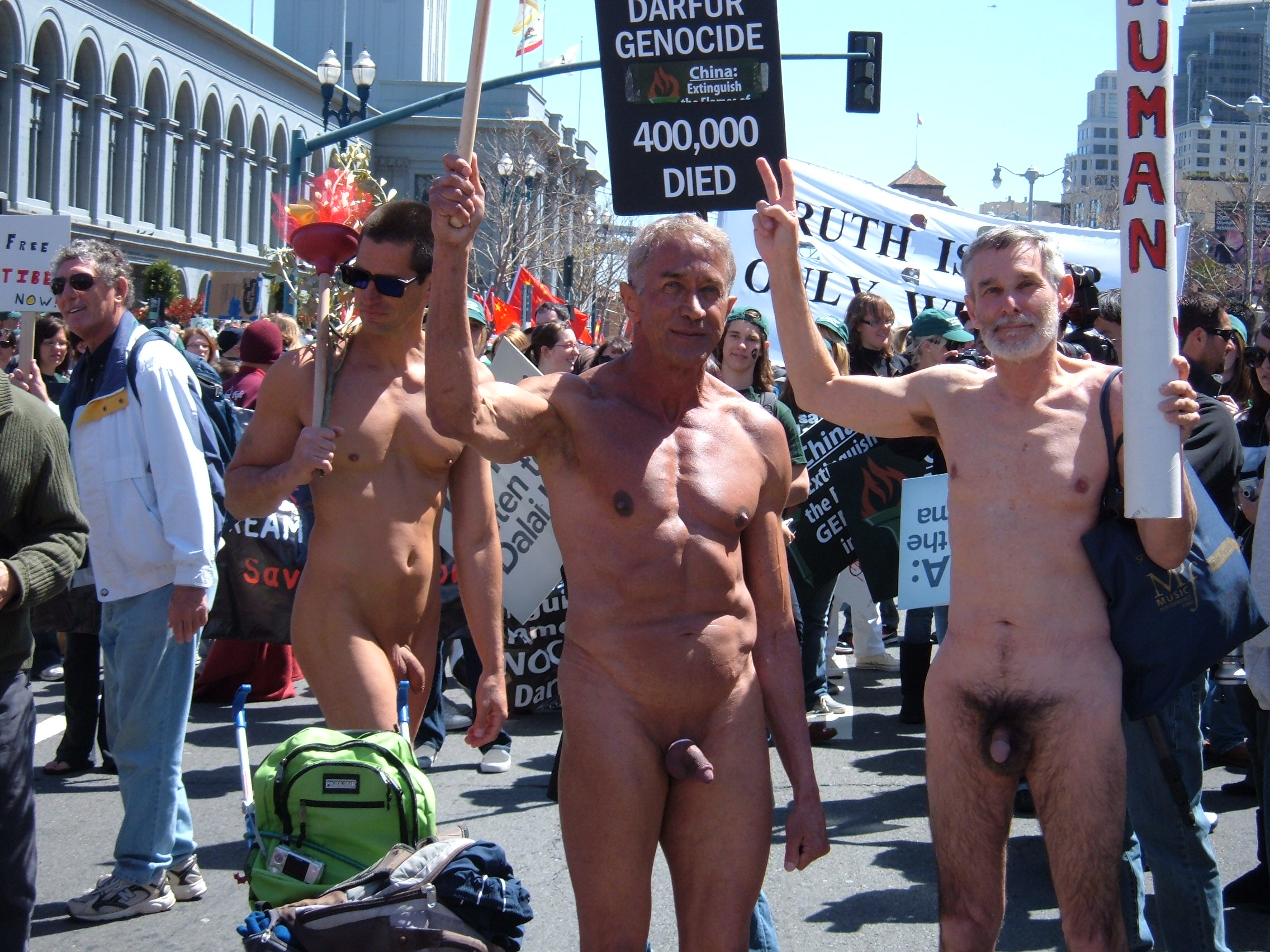 Three nude men protesting China's human rights record near Pier 1. For an explanation and additional photos of my experience during the relay please see User:BrokenSphere/Gallery/San Francisco Bay Area/San Francisco/2008 Olympic Torch Relay.